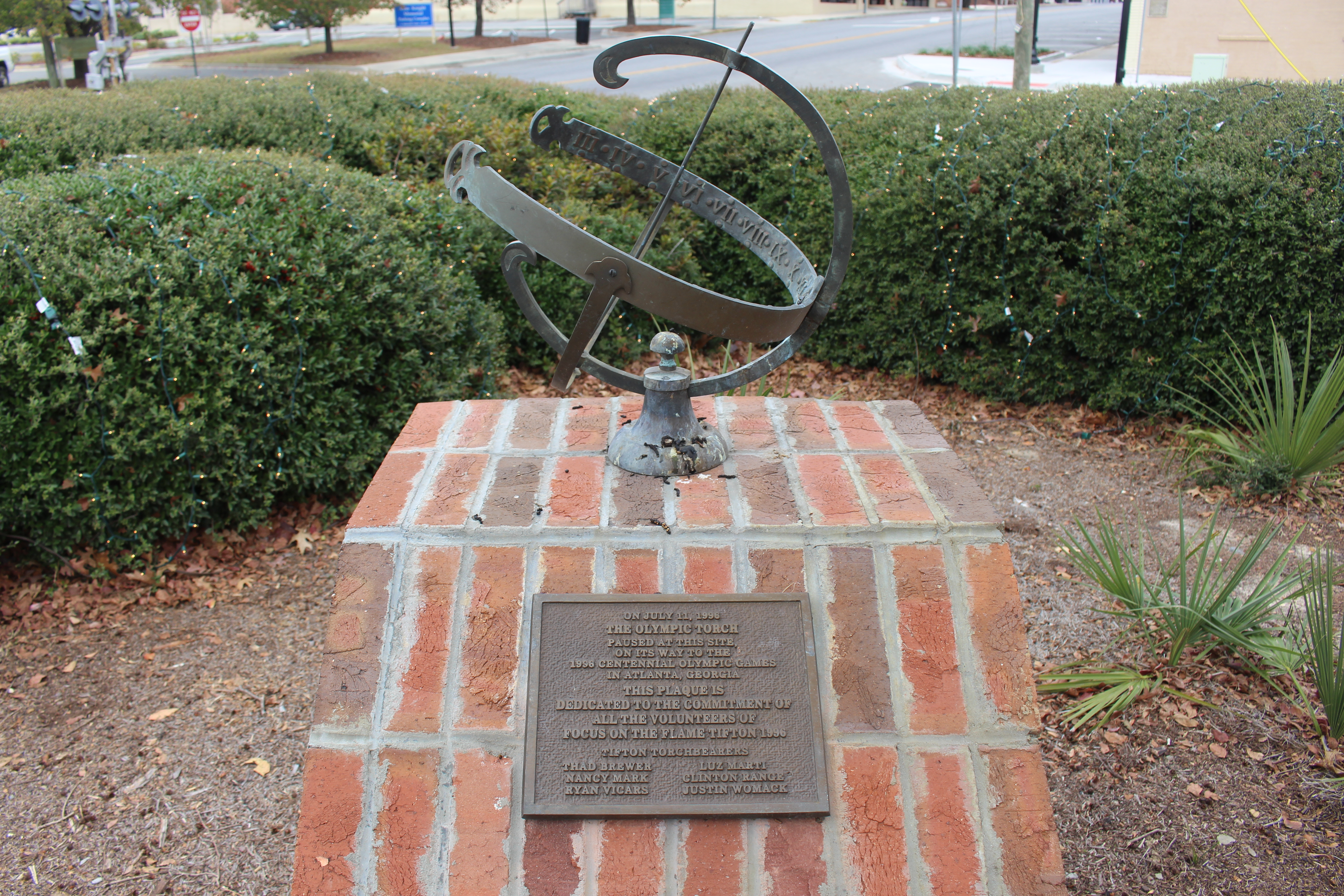 Olympic Torch memorial, Tifton Gardens park, Tifton, Tift County, Georgia. The plaque reads "On June 11, 1996 The Olympic Torch paused at this site, on its way to the 1996 Centennial Olympic Games in Atlanta, Georgia. This plaque is dedicated to the commitment of all the volunteers of Focus on the Flame Tifton 1996. Tifton Torchbearers: Thad Brewer, Luz Marti, Nancy Mark, Clinton Range, Ryan Vicars, Justin Womack